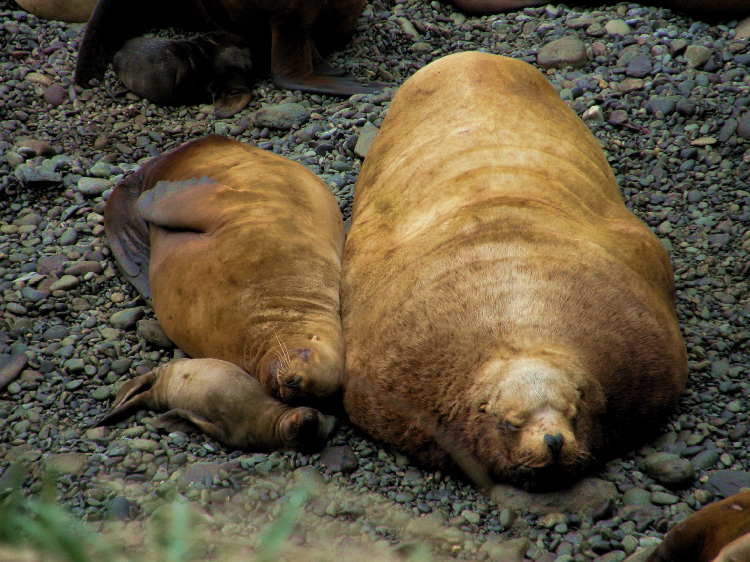 Own photograph of Steller sea lion pup, adult female and male taken in the northeast Sea of Okhotsk in the summer on 2007